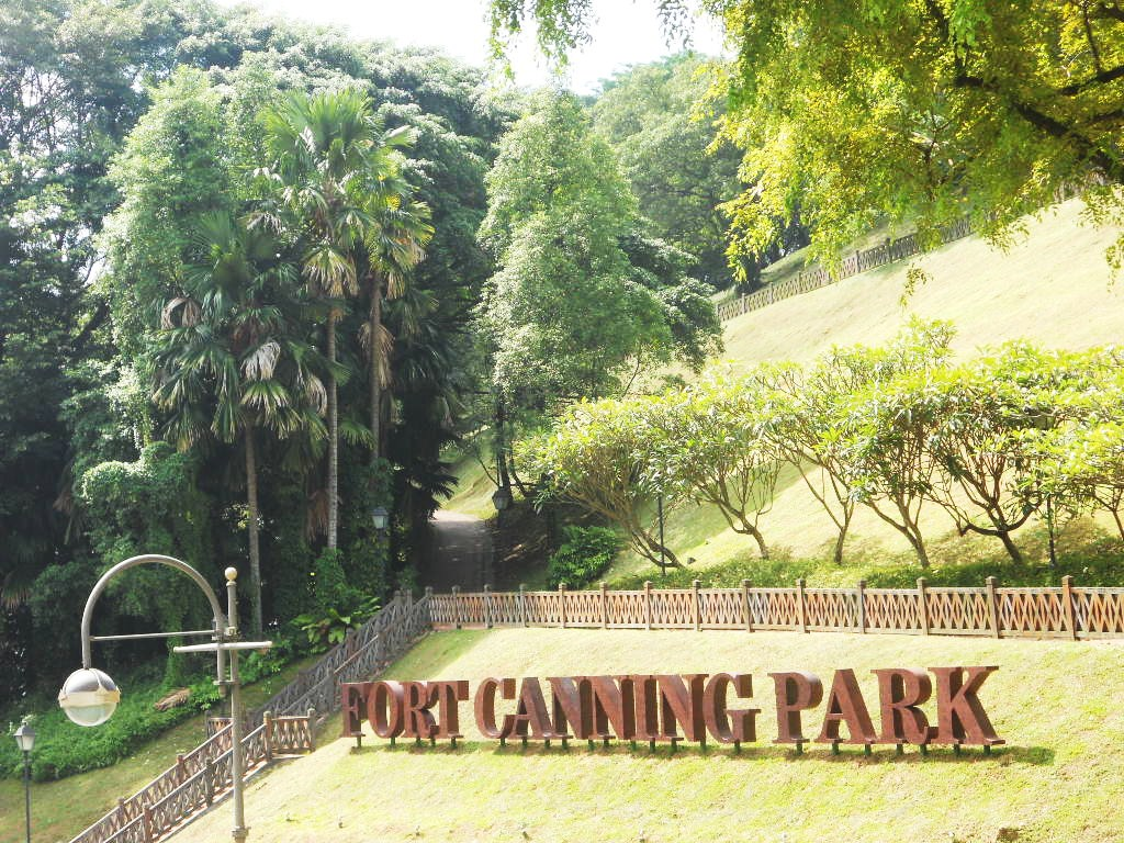 A Fort Canning Park sign near River Valley Road, Singapore.